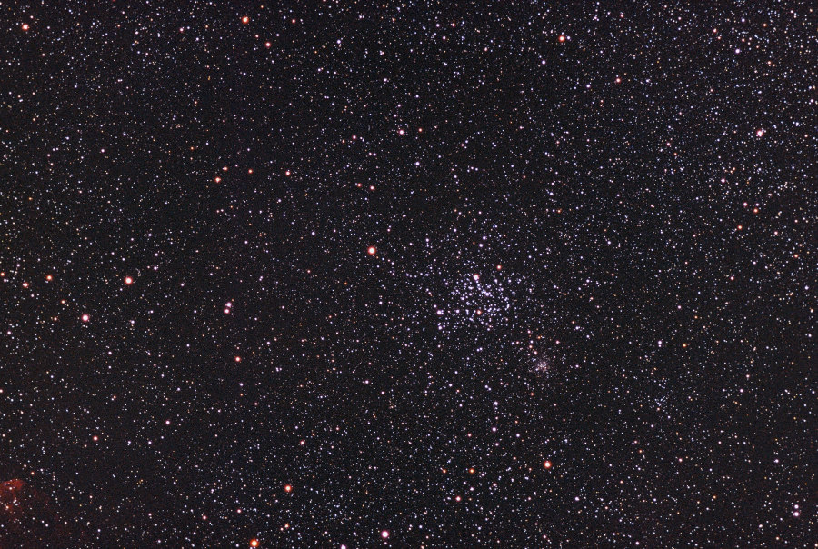 The open star clusters Messier 35 and NGC 2158, photographed at La Palma, Roque de los Muchachos (Degollada de los Franceses). Photo taken the following equipement: Camera/Telecope: Pentax SDHF 500 6.7/500 on GP/DX, tracing ST4 at 600mm (Sonnar 4/300 with 2x tele converter) Exposure: 40 min Film: Kodak E200 35mm (Push to 600 ASA) Scanner: Scan service Processing: Removed vignetting, colour and contrast correction. additional remark: faintest object visible at 6.5 mag